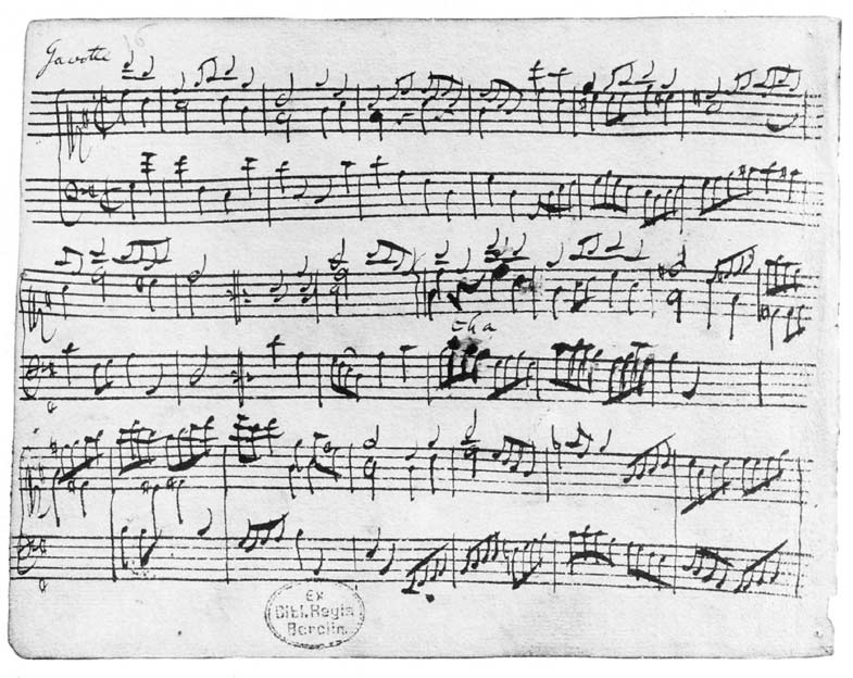 Gavotte from first notebook for Anna Magdalena Bach (French suite No.5, G major, BWV 816) Taken from the Bach Gesamtausgabe (BGA), vol. 44 [B.W. XLIV]: "Joh. Seb. Bach's handschrift" (Joh.Seb.Bach's manuscripts), Originally published by the Bach-Gesellschaft in Leipzig, 1895. This image is in the public domain.